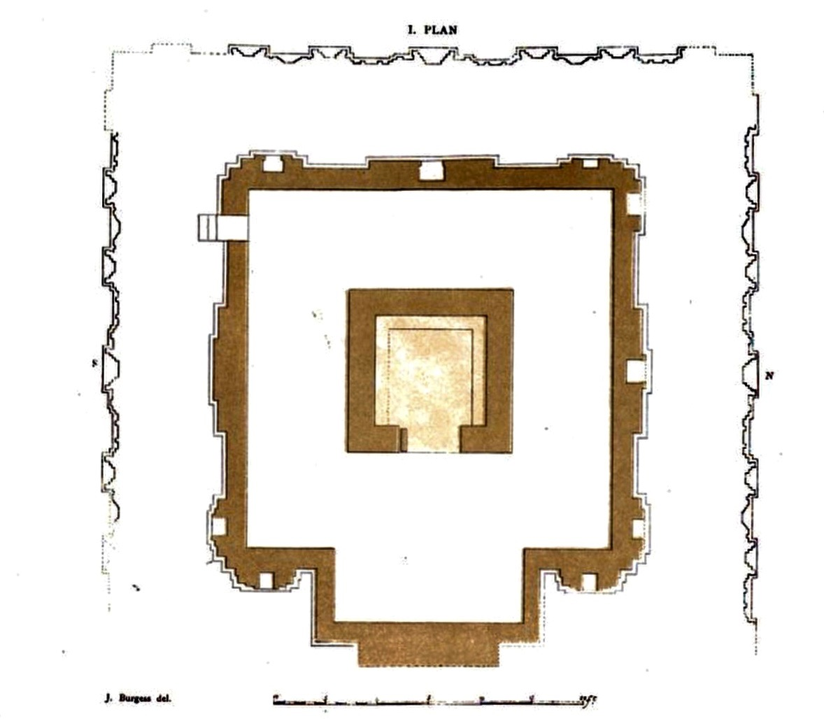 The Gop temple is a Sun temple located at Zinavari village in Jamjodhpur Taluka of Jamnagar district, Gujarat, India. The Hindu temple is dated about late 6th century or early 7th century, one of the earliest surviving stone temples in Gujarat. The original temple had a square plan, a mandapa and covered circumambulation passage which are lost, and a pyramidal masonry roof which is ruined but whose partial remains have survived. The temple has a height of 23 feet (7.0 m) which includes a small tower. The tower is decorated with arch-like windows (torana) and an cogged wheel-shaped crown amalaka.